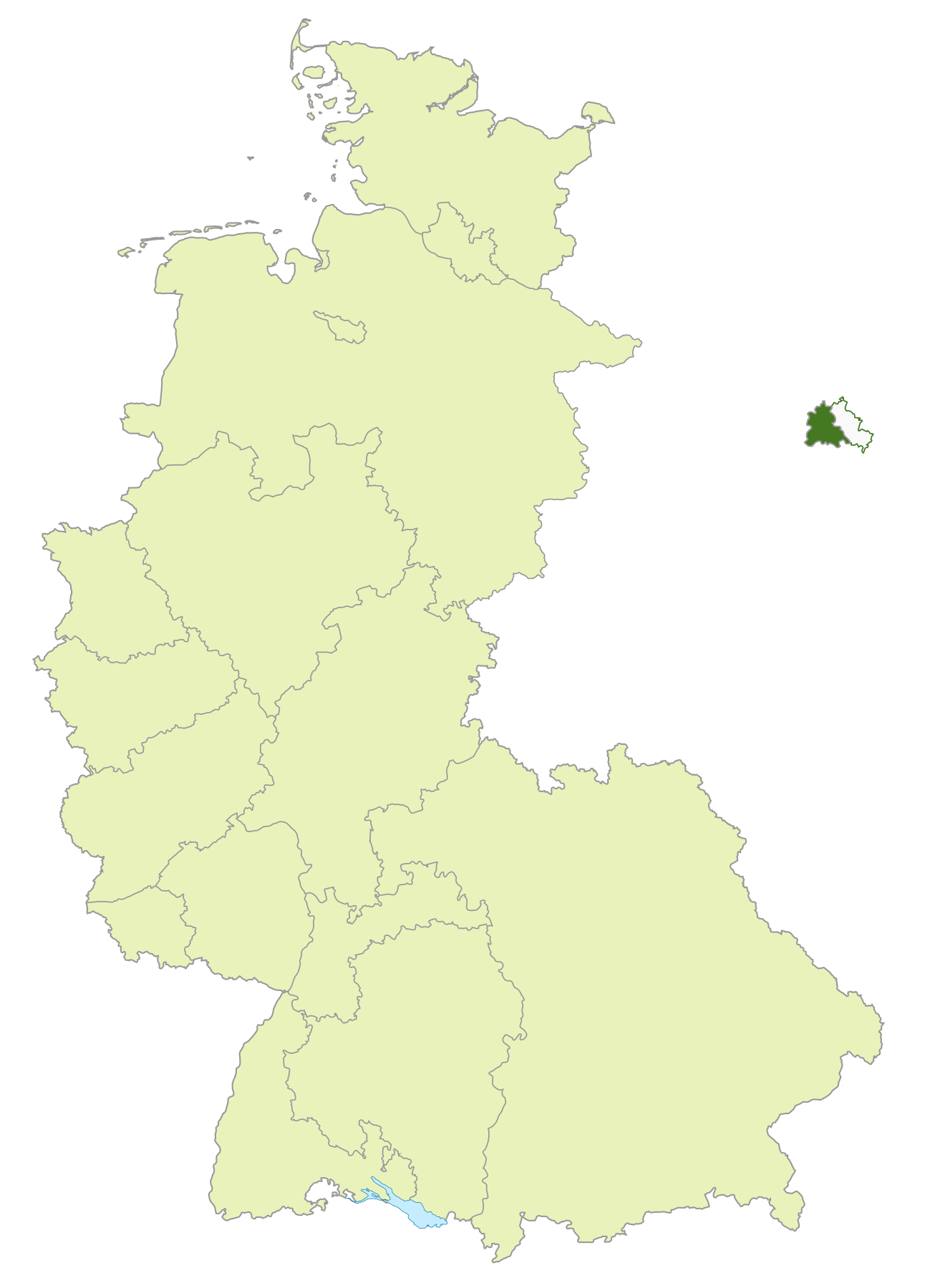 Germany's Regional Soccer Association of Berlin,1947-1990